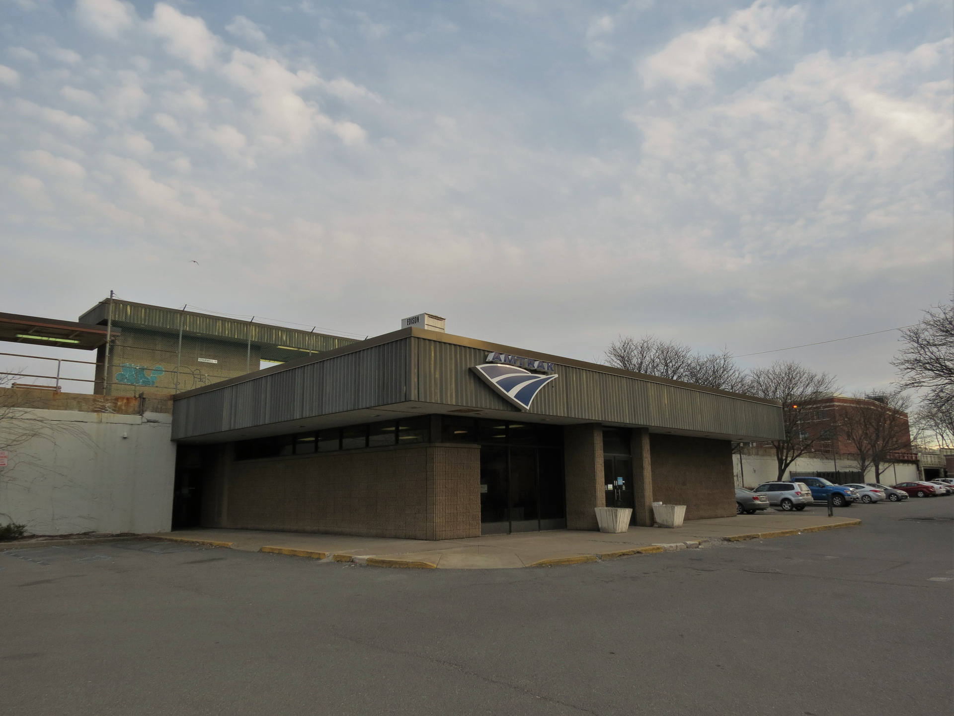 Schenectady Station March 2016